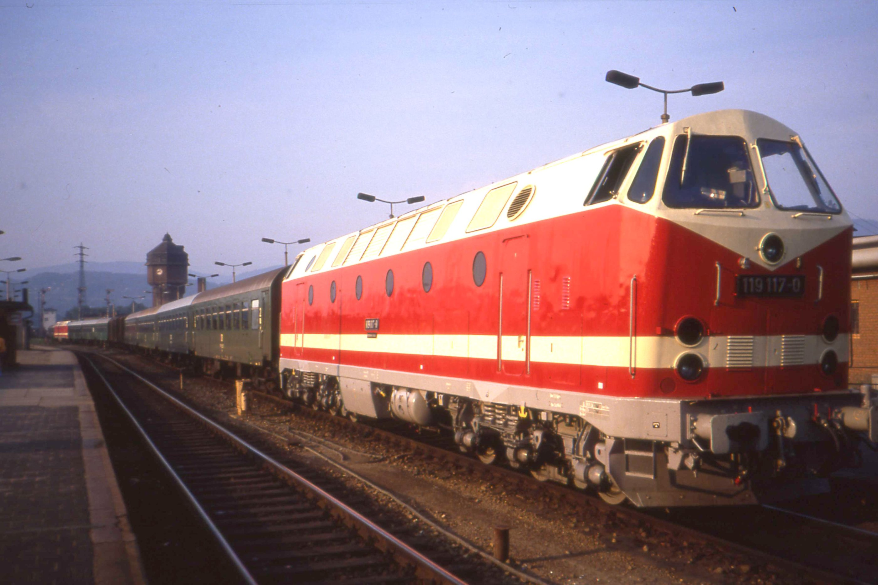 I have a feeling that this was a push -pull train with a baggage car in the middle, rather than two trains departing in opposite directions from the same platform. In the background, the famous water tower at Saalfeld and another Baureihe 119 Romanian built diesel at the rear. The DR (and CSD) check numbers were generated by multiplying x1 x2 etc left to right. Adding all the DIGITS of the multiplication and subtracting from the next highest number ending in zero. hence 119 117 = 1,2 9 2 1 1 4 = 20. 30-20 =10, ie 0